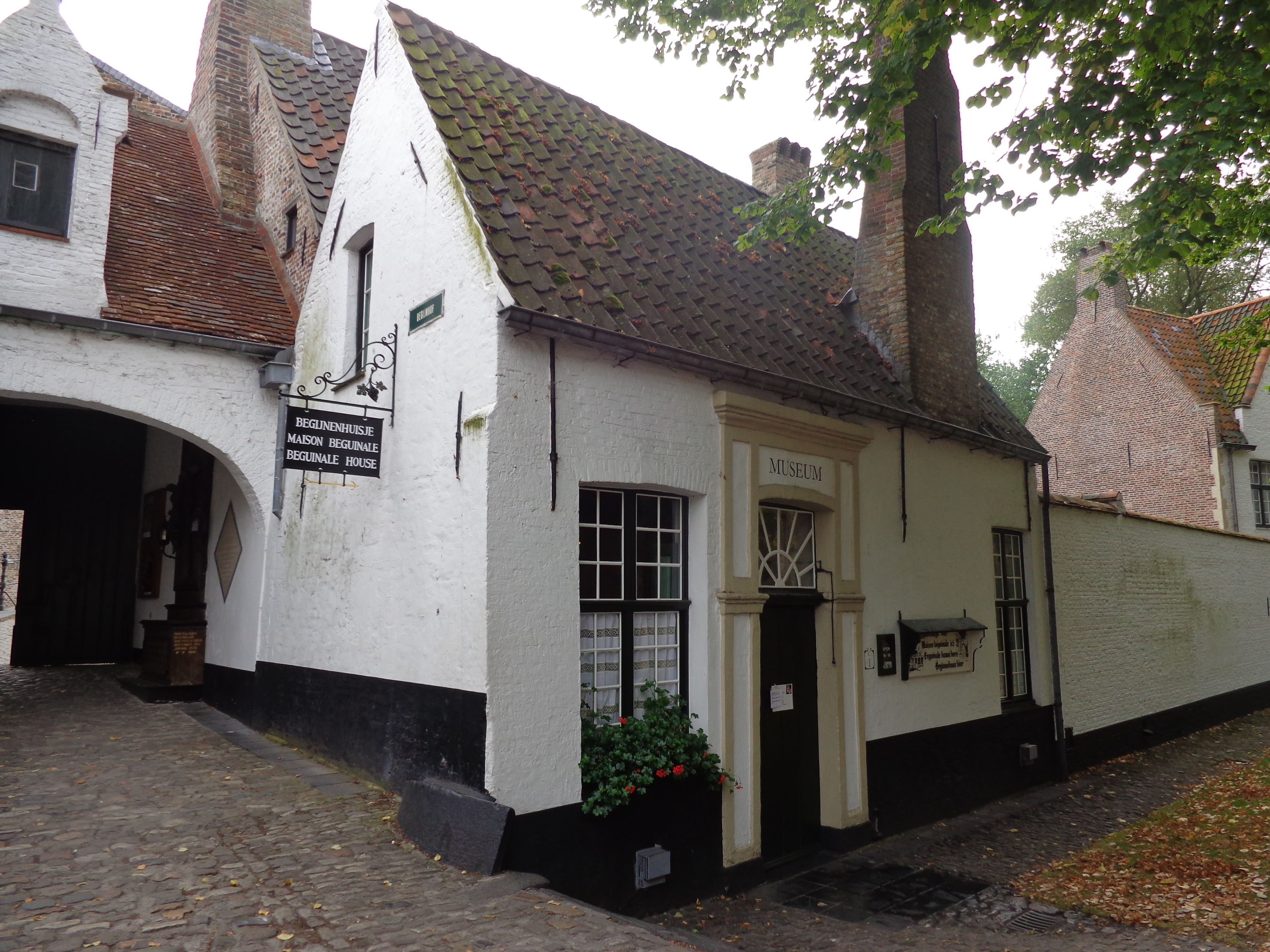 Beguinage of Brugge